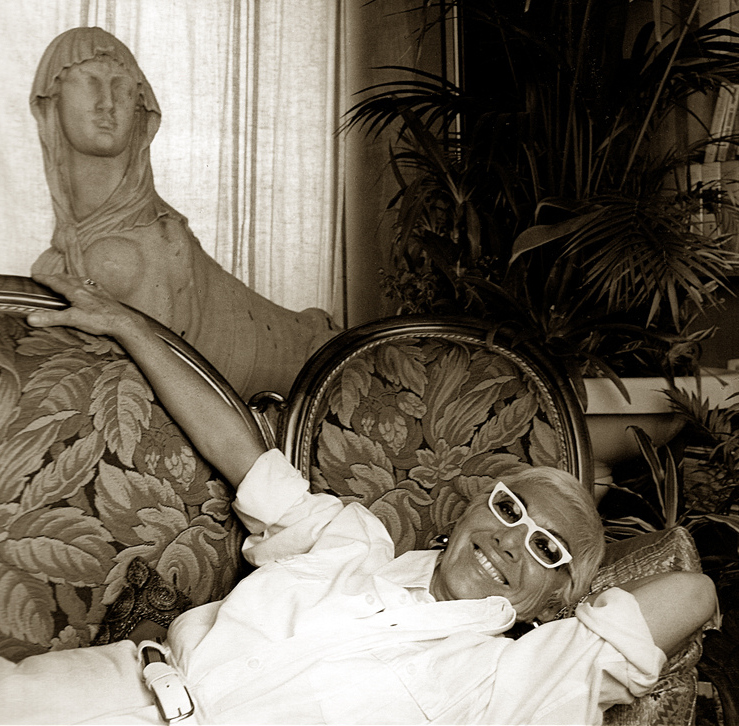 Portrait of Lina Wertmüller.